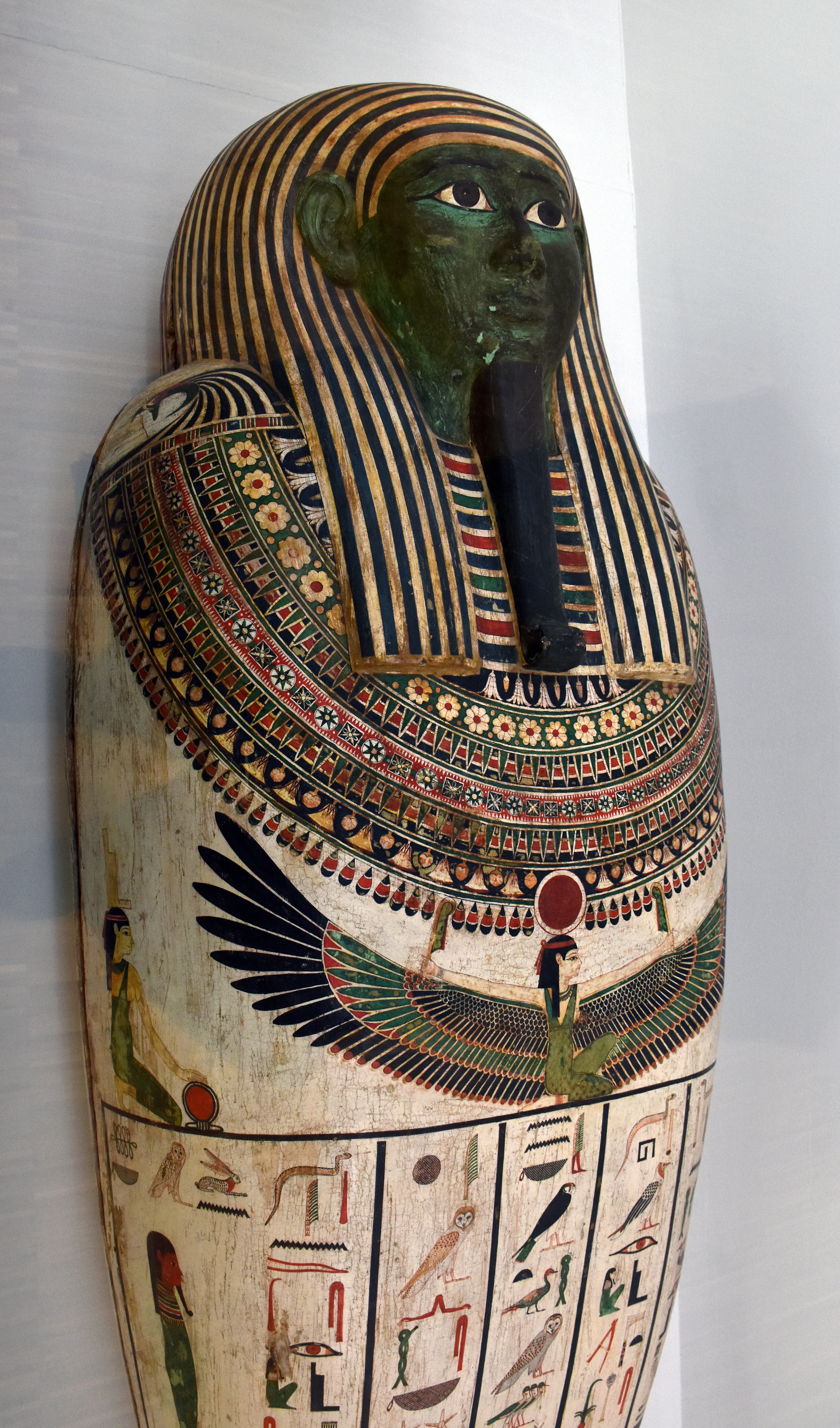 Detail of a sarcophagus from the Ptolemaic period, made of wood, plaster and pigments, origin unknown. Now in the Musée de Grenoble.